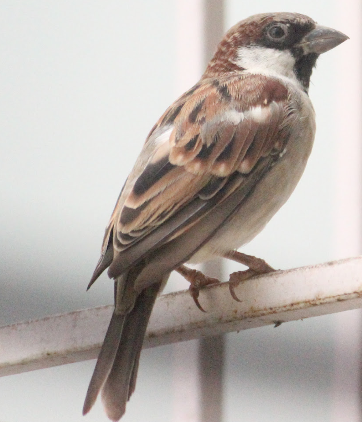 Sparrow Hyderabad